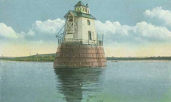 A postcard showing Bug Light near Yarmouth, Nova Scotia.